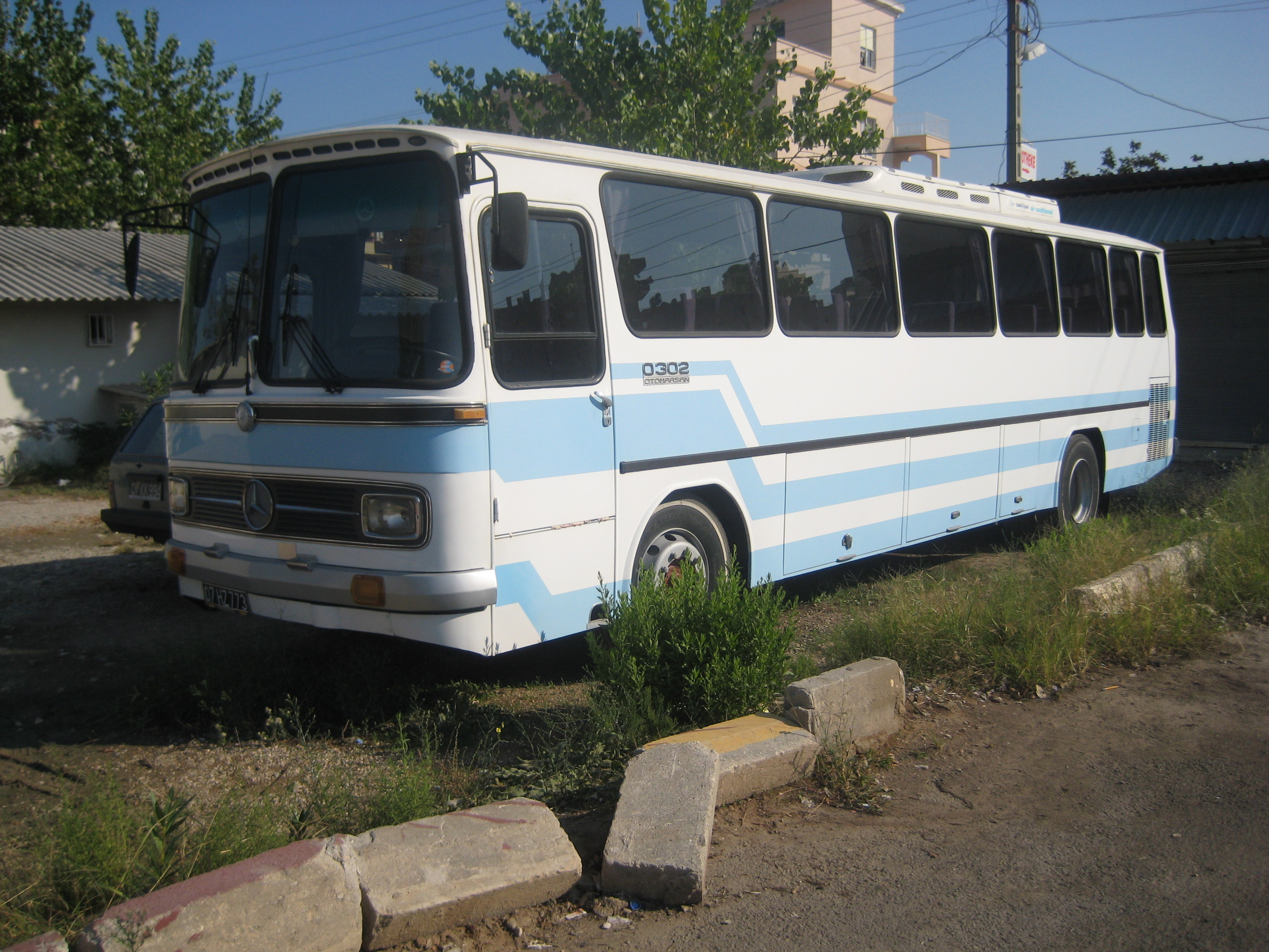 Mercedes O 302 bus, still in service in Turkey